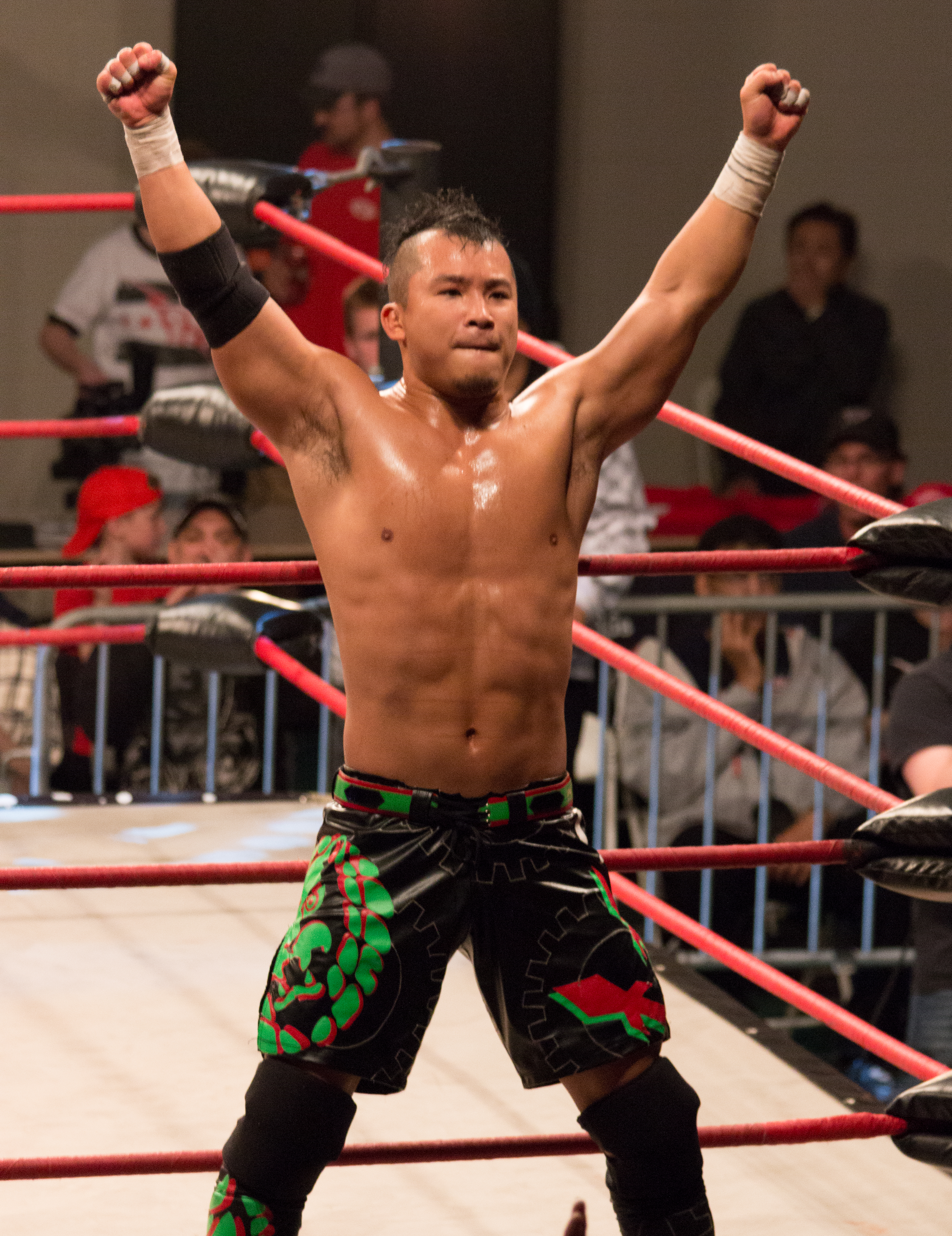 KUSHIDA posing post-match at Border City Wrestling's East Meets West show at St. Clair College in Windsor.